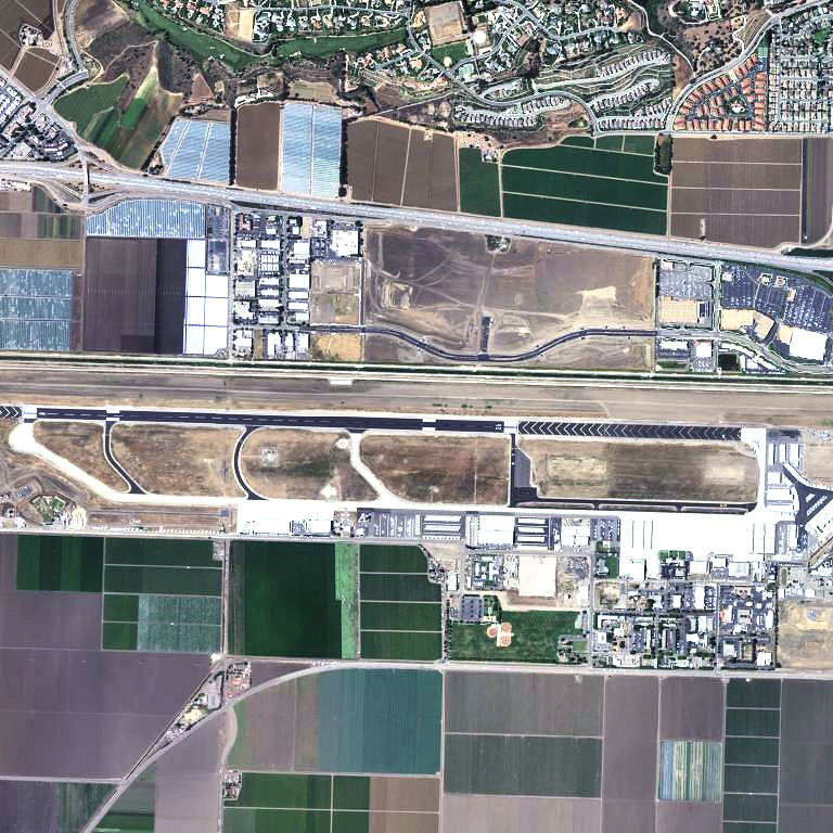 USGS digital orthophoto of Camarillo Airport in Camarillo, Ventura County, California, United States